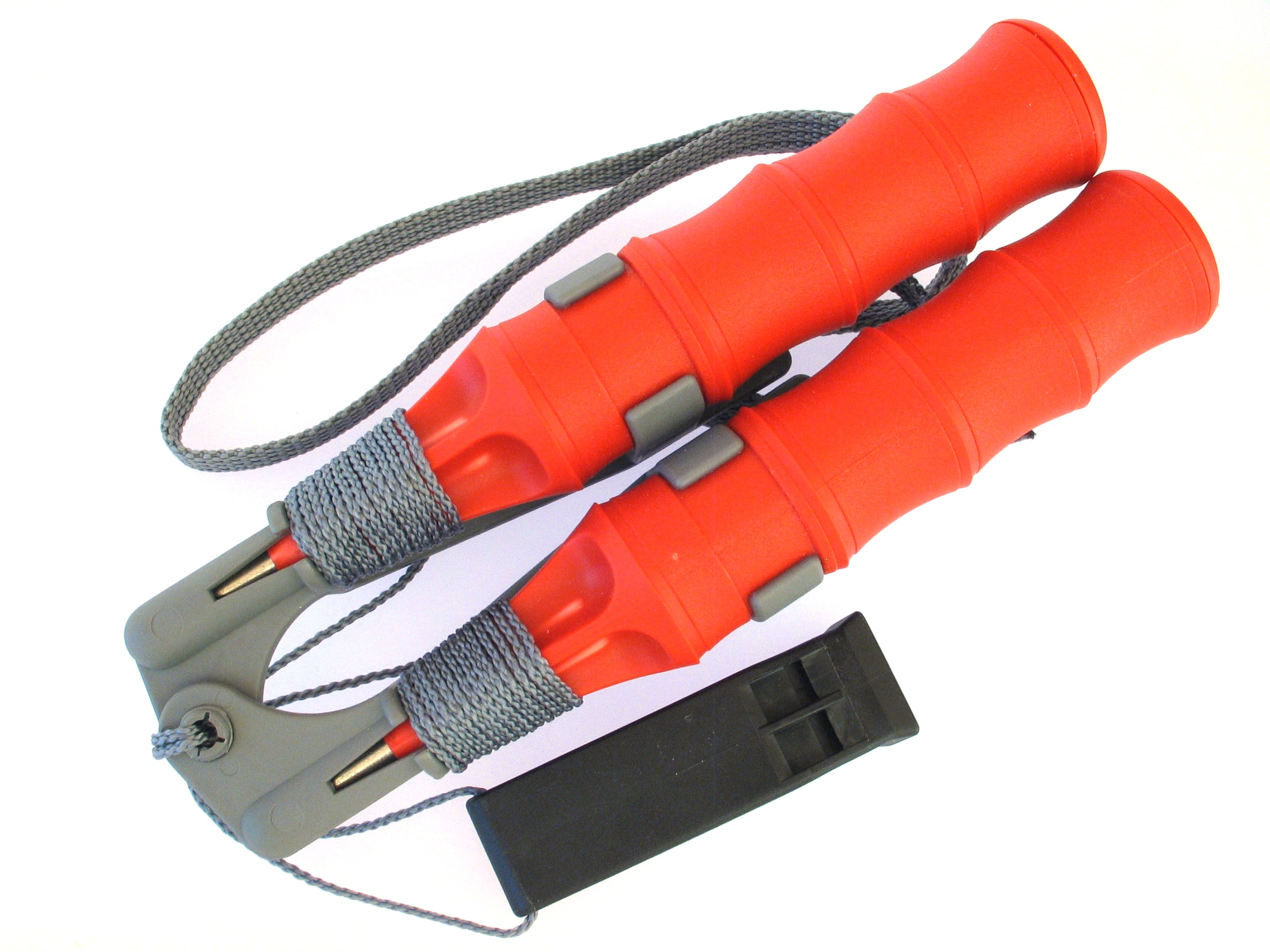 Ice Picks, photo taken in Sweden